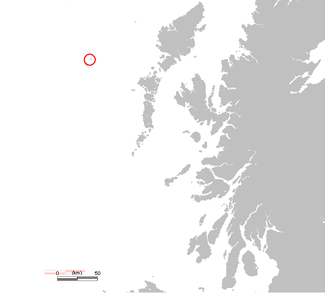 Location map of Stac Lee, St Kilda